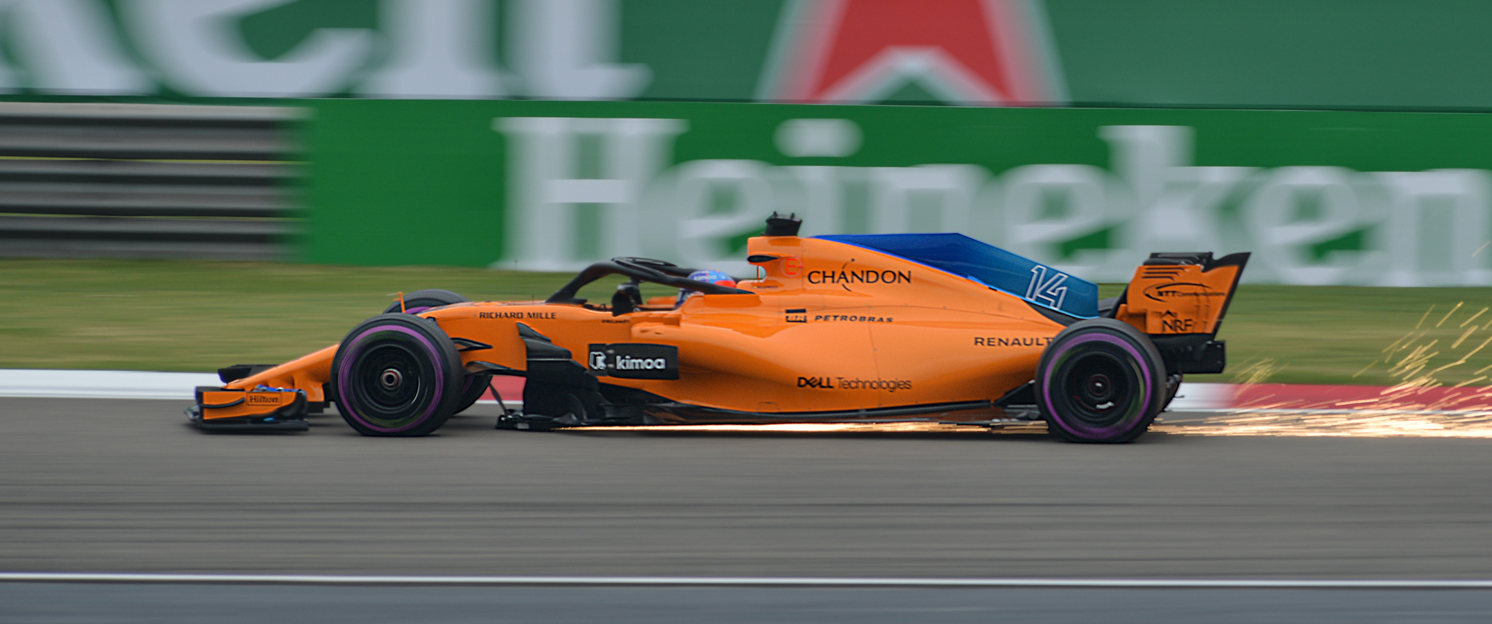 Spanish racing driver Fernando Alonso on McLaren-Renault MCL33 of McLaren F1 Team, during the free practice of the 2018 Heineken Chinese Grand Prix at the Shanghai International Circuit.